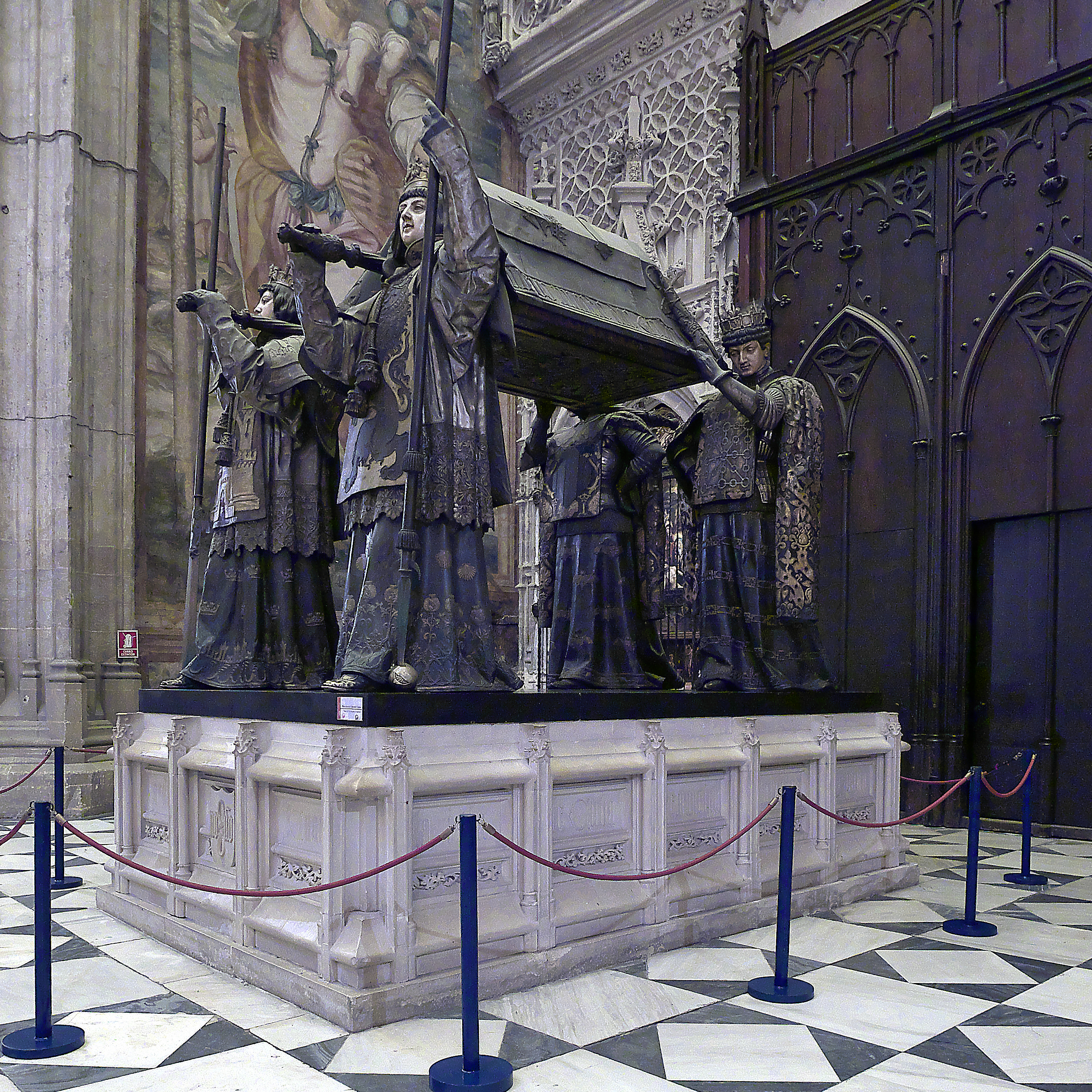 Tomb of Christopher Columbus